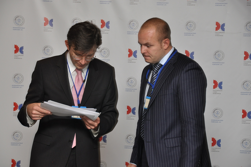 Семинар РСИ_2